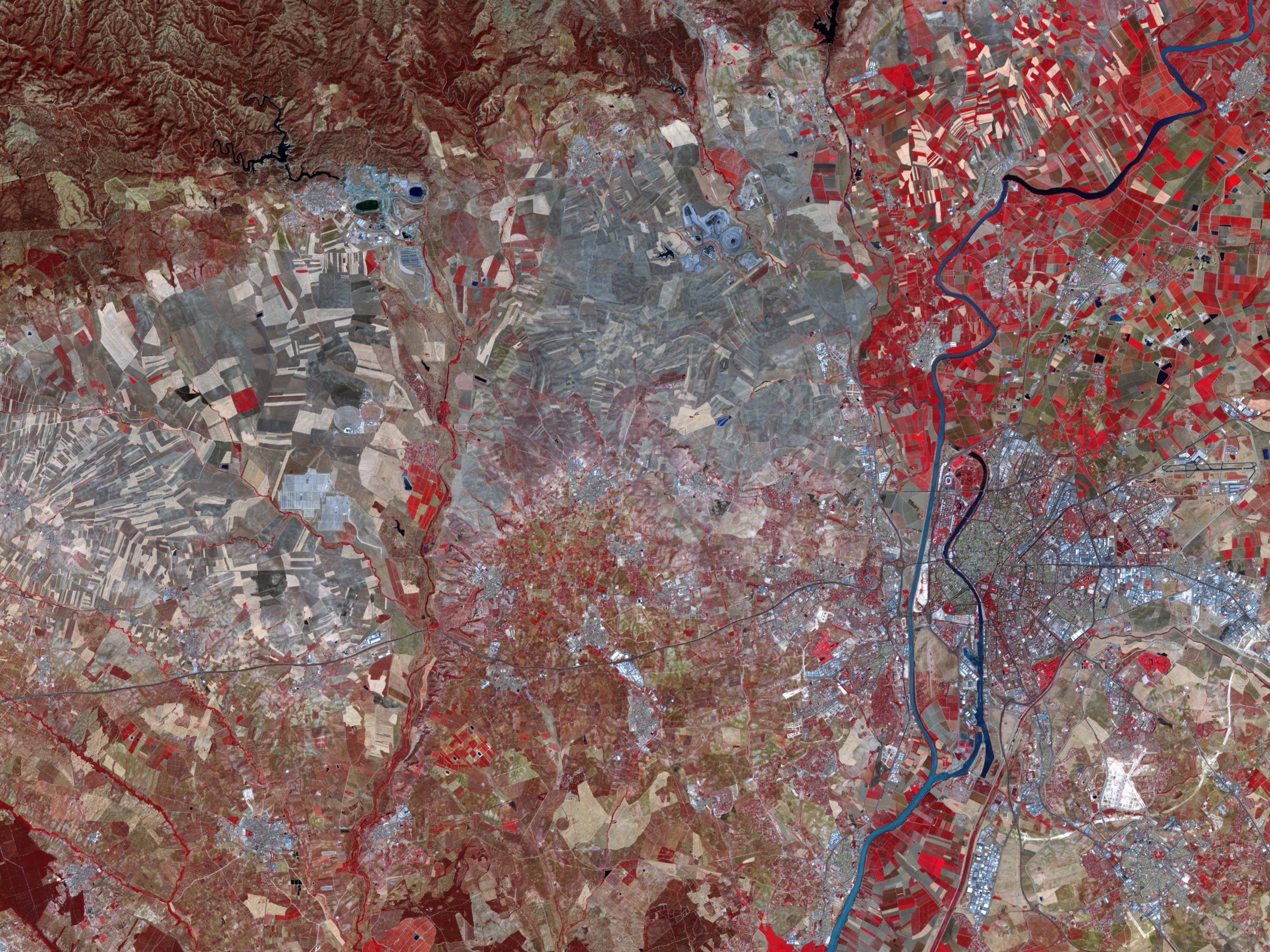 This false-colour image shows PS10 and PS20. Red indicates vegetation, shades of brown indicate bare ground and/or fallow fields, and blue indicates water. Human-made structures appear in shades of blue-grey. PS10 and PS20 appear as approximate circles punctuated by towers on their southern ends. Although less conspicuous than the circular arrays, rectangular arrays of mirrors operate south of the towers. This image shows the network for PS20 is larger than that for PS10.